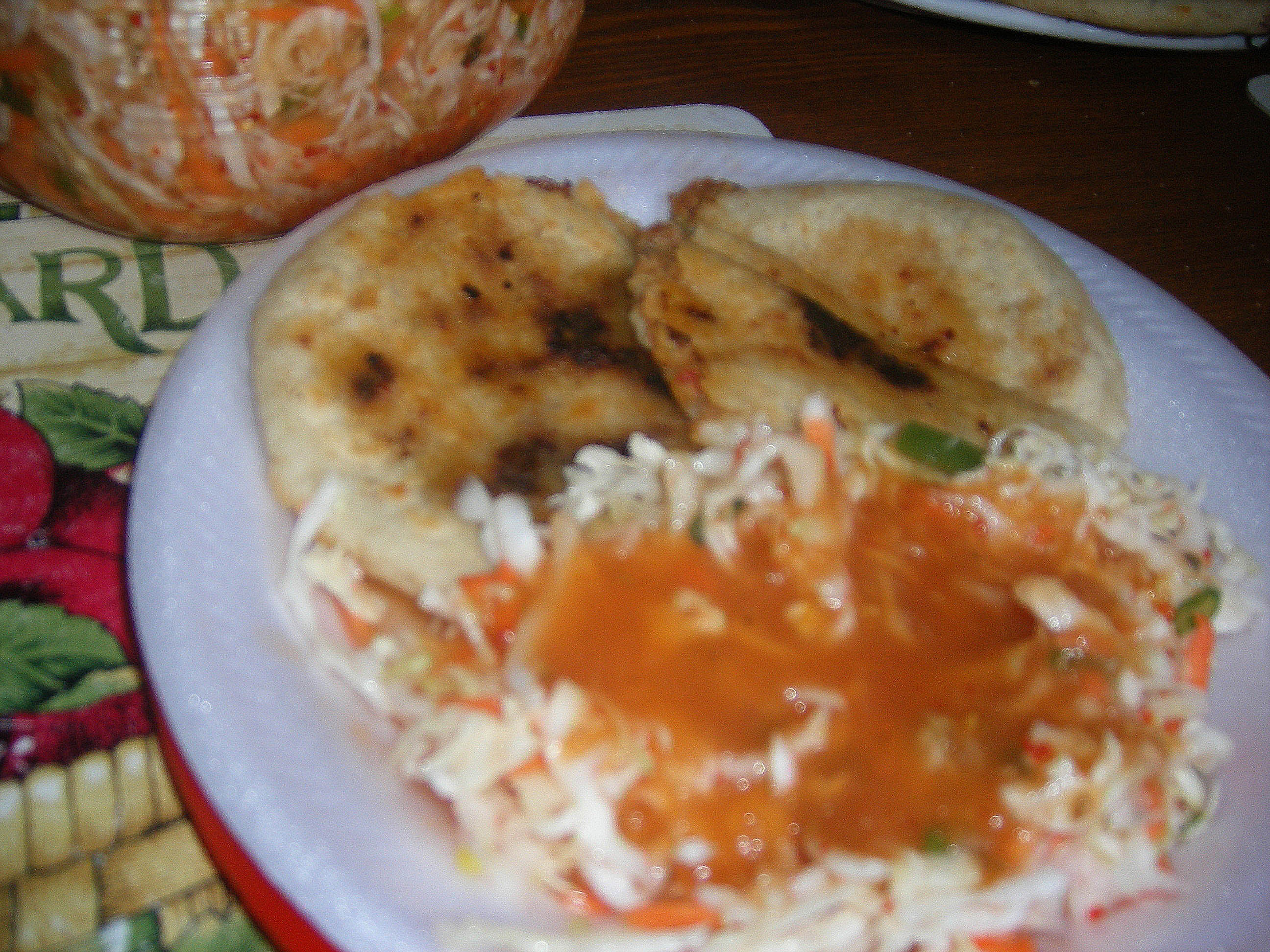 Pupusas revueltas with curtido and tomato sauce from a pupusería in East Side, Chicago.